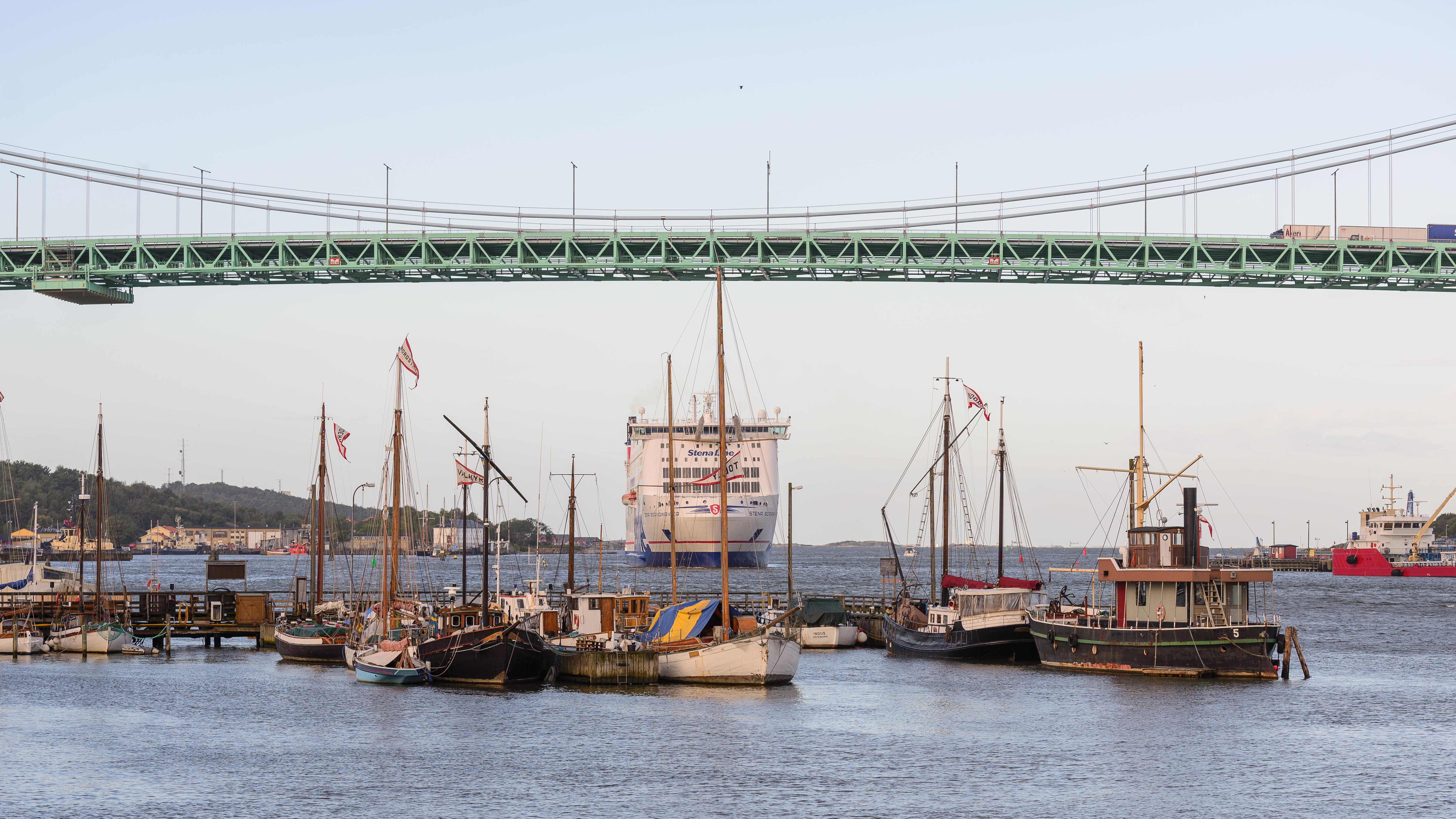 Old ships in Klippan, Gothenburg. In the background Stena Scandinavica and Älvsborg bridge.